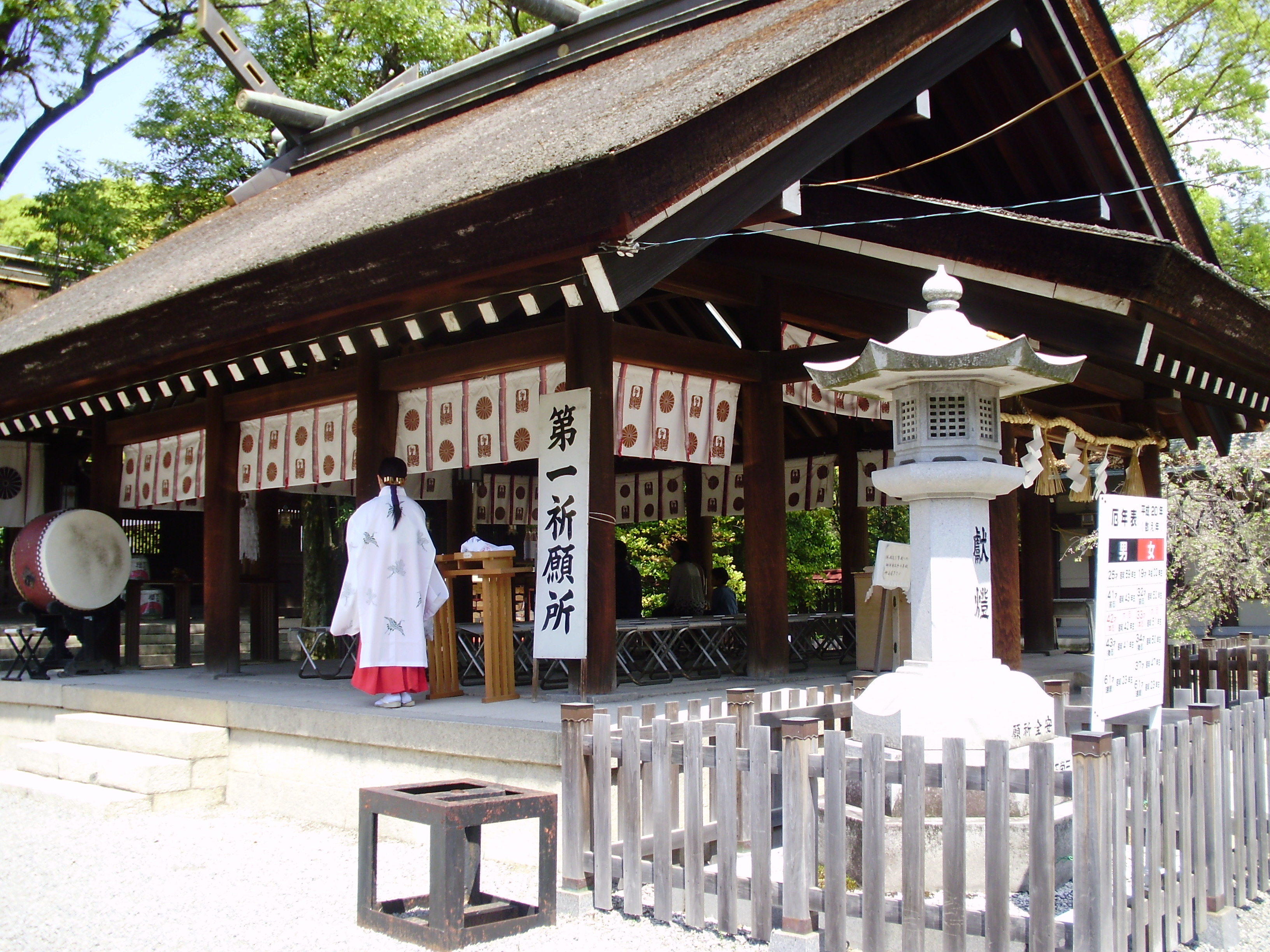 Inside Otori-taisha in Sakai City, Japan.